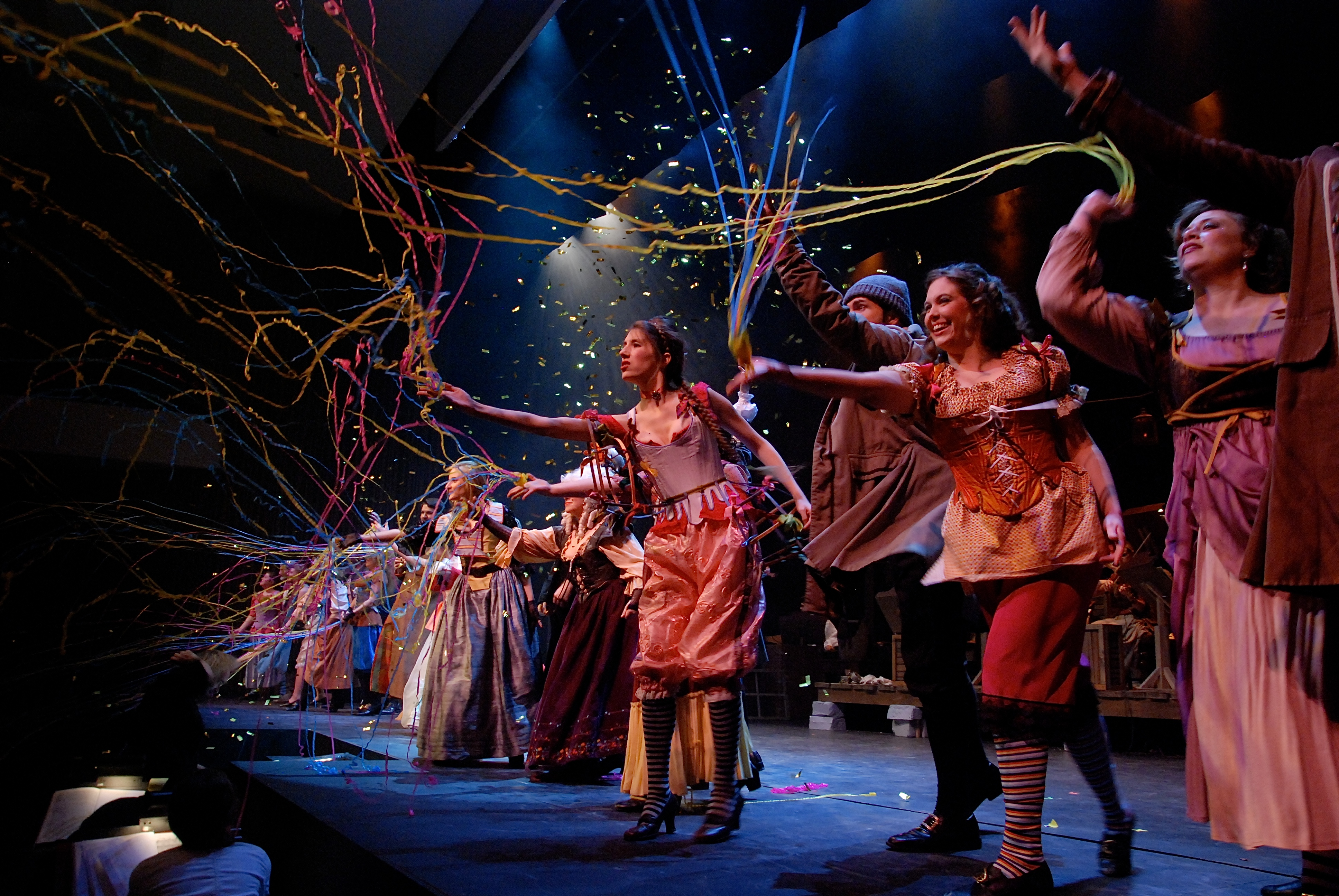 Performance still of DOT The Beggar's Opera